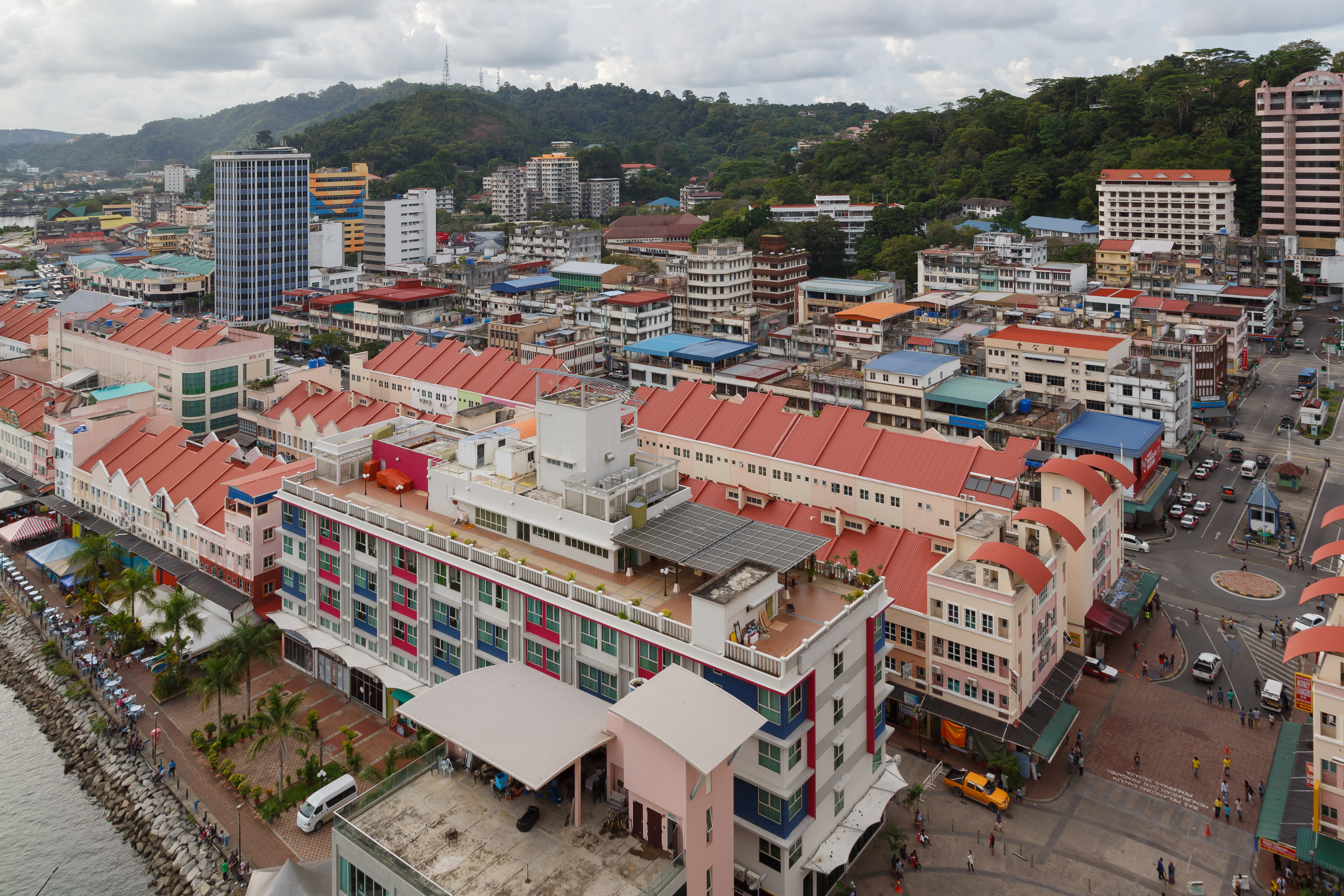 Sandakan, Sabah: The old town in Sandakan, Sabah - View from Harbour Mall 2013